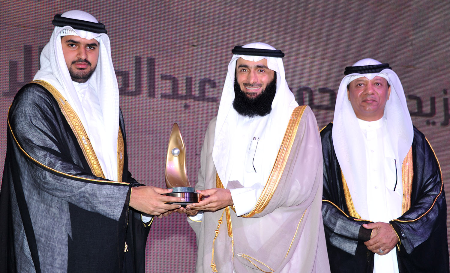 جائزة رائد العمل التطوعي